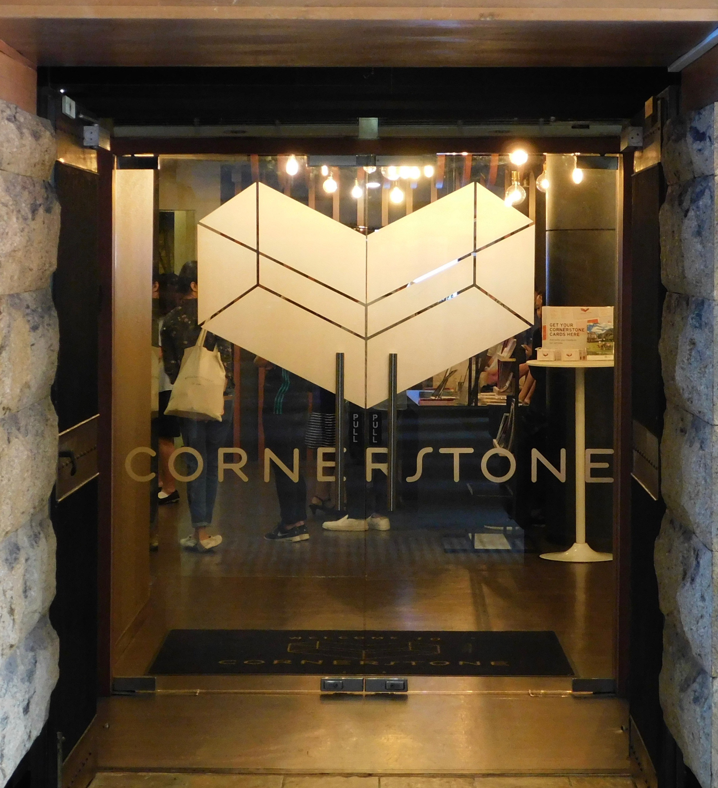 Cornerstone Community Church is an independent Pentecostal Church based in Singapore. It is located at 11 East Coast Road, The Odean-Katong, Level 2/3, Singapore 428722.